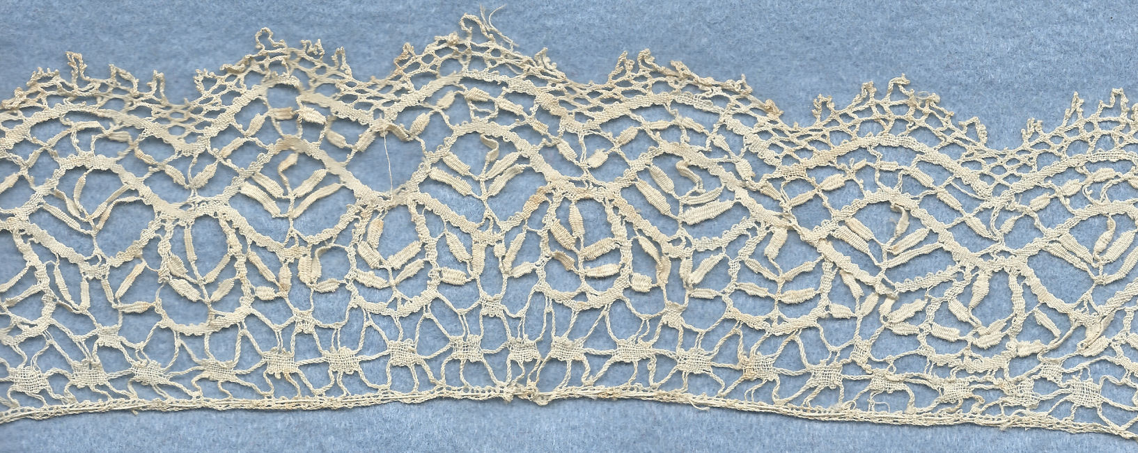 Bobbin lace made in the English Midlands, in a style known as Bedford lace